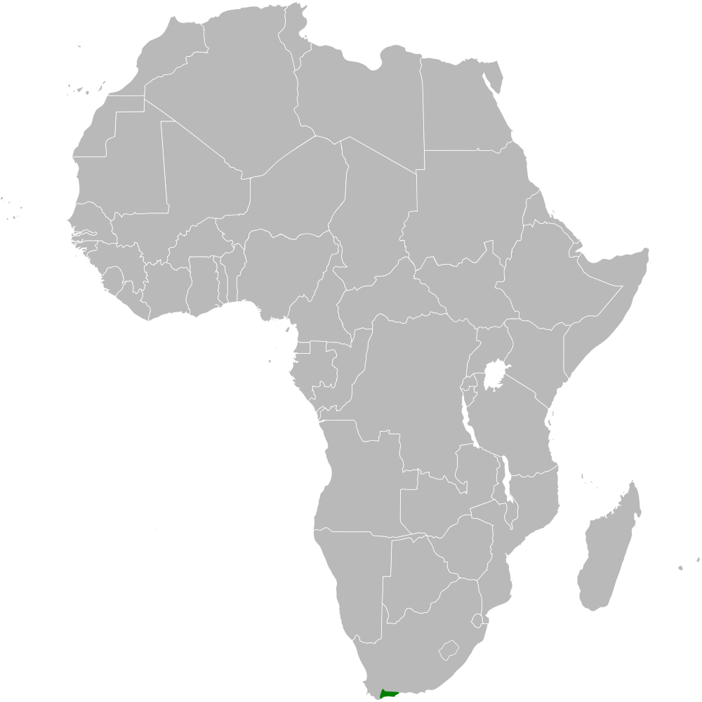 Certhilauda brevirostris distribution map; using Blank Map-Africa.svg, based on